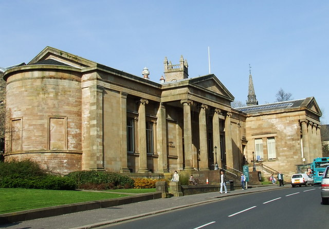 Paisley Museum and Art Galleries This fine building at the top of the High Street also contains a library.